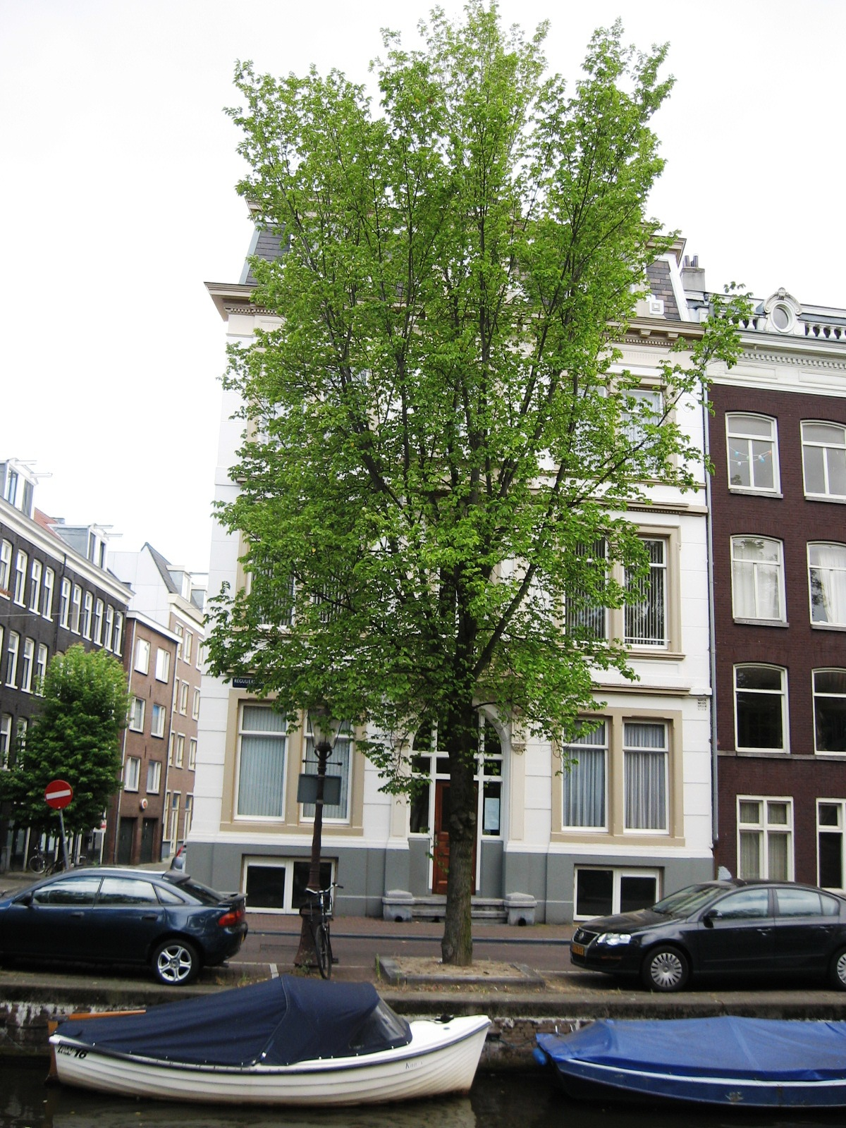 Ulmus 'Plantijn' in Amsterdam; Photo by R. Nijboer